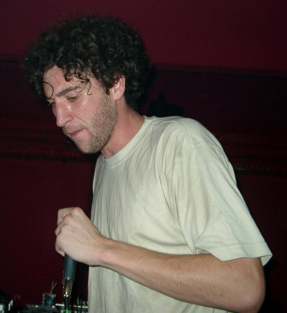 Serbian rapper Ajs Nigrutin.